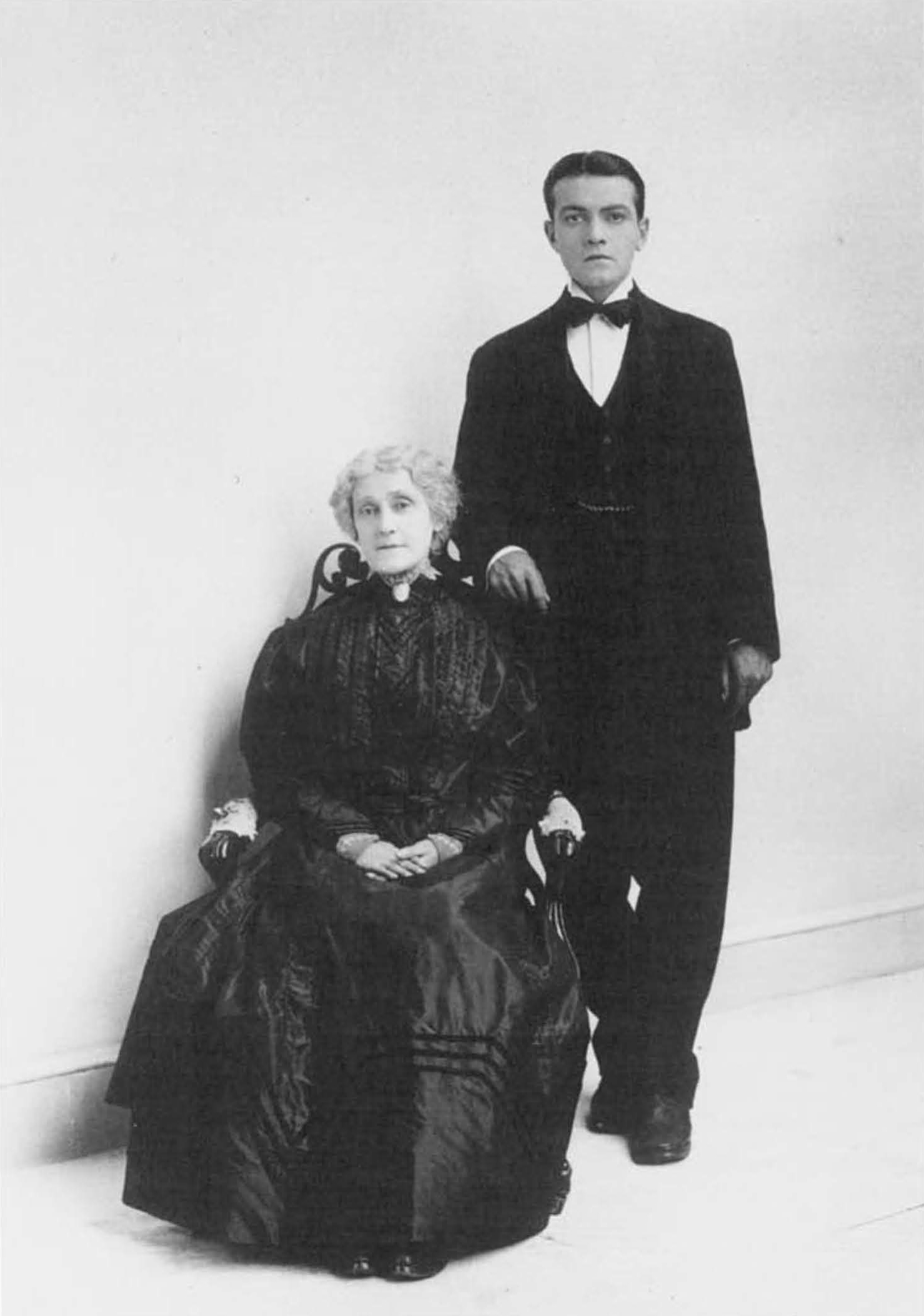 Kate Bruce and Richard Barthelmess in Way Down East (1920)